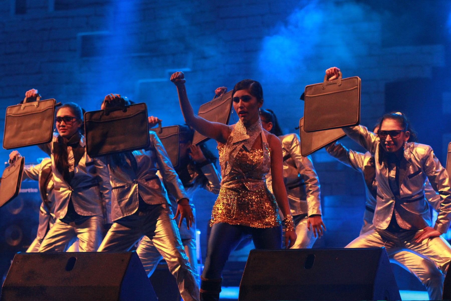 Naila Nayem